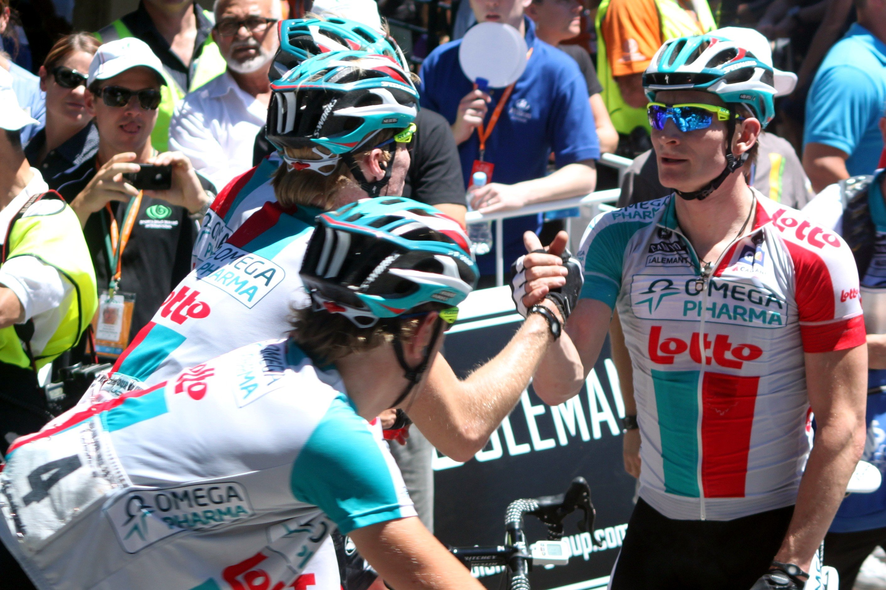 André Greipel reviewing with his team after finishing Stage 4 of the 2011 Tour Down Under in Strathalbyn